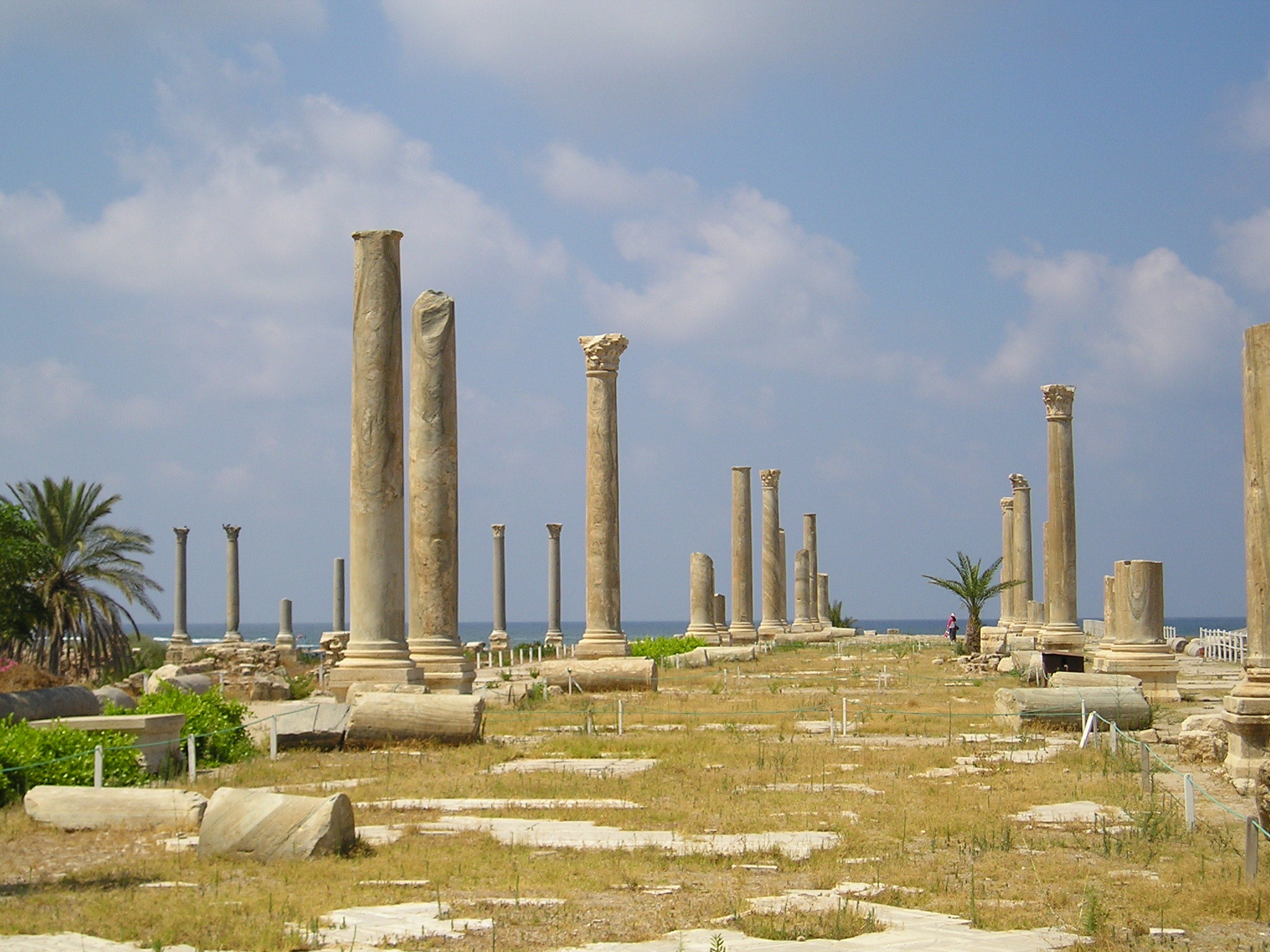 Tyre, Lebanon - main colonnaded street in Al Mina excavation area